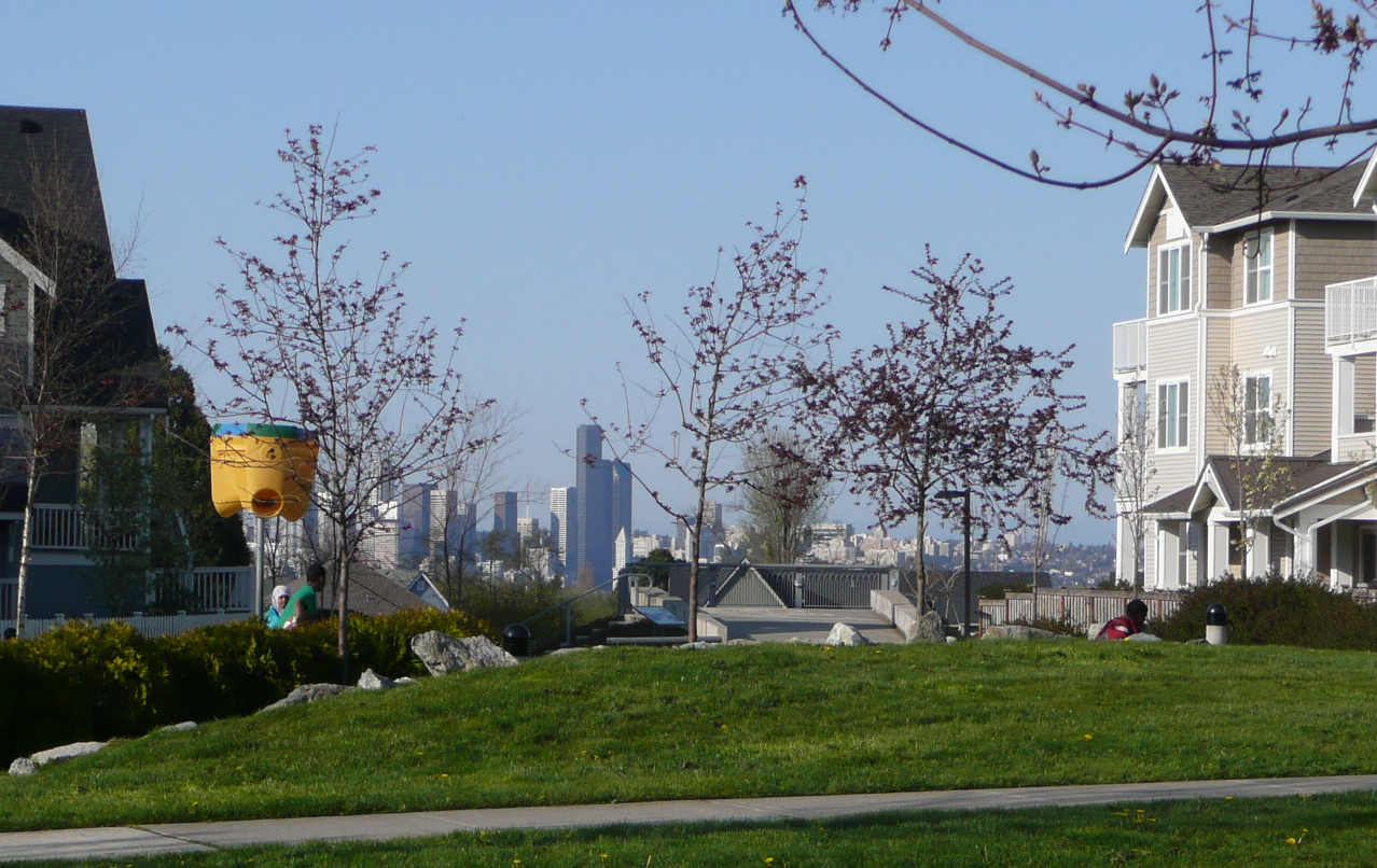 High Point neighborhood in West Seattle, WA. Commons area with view of downtown Seattle